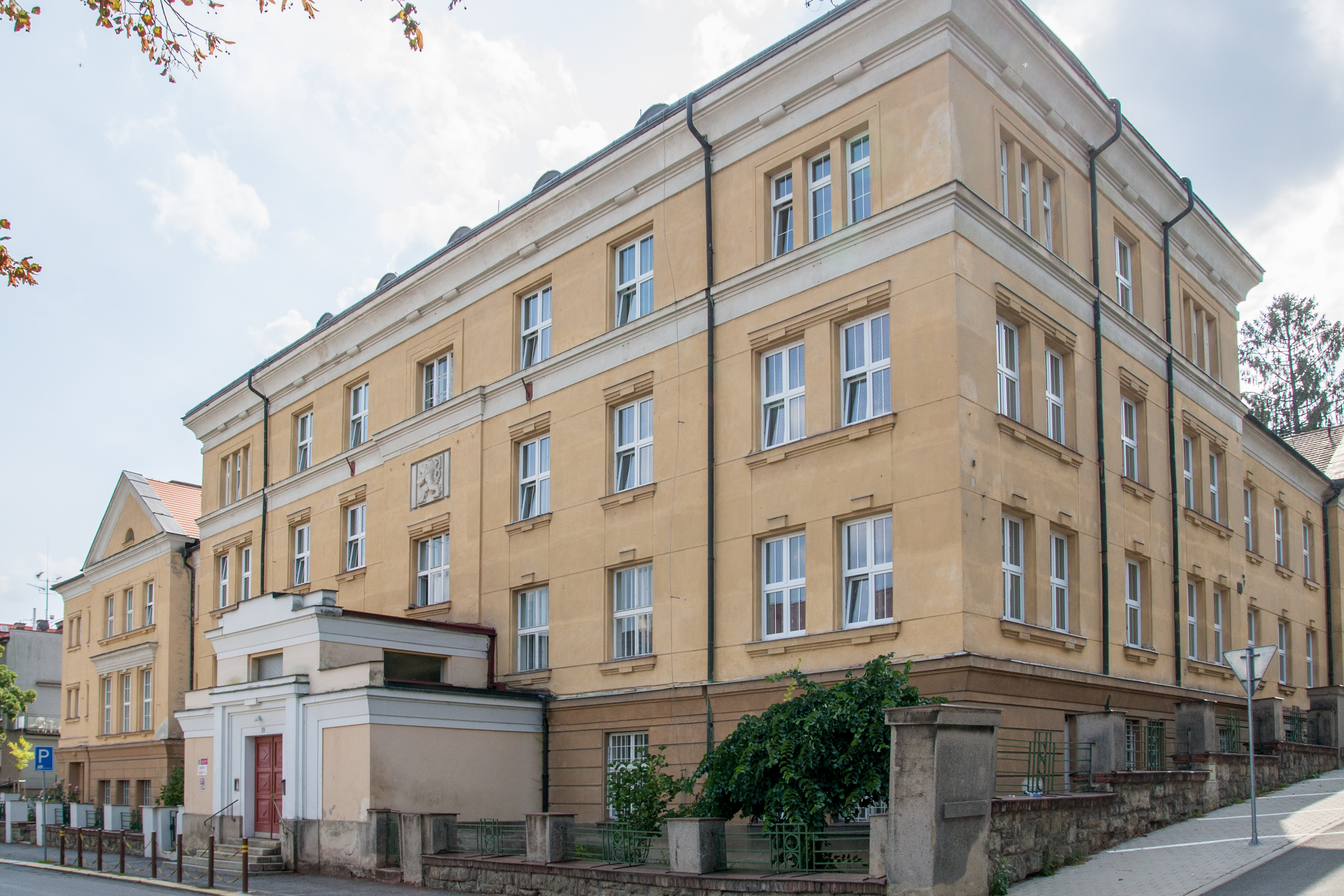 Former District office building, now boarding house of Alois Jirásek gymnasium in Litomyšl, Svitavy District, Pardubice Region, Czechia